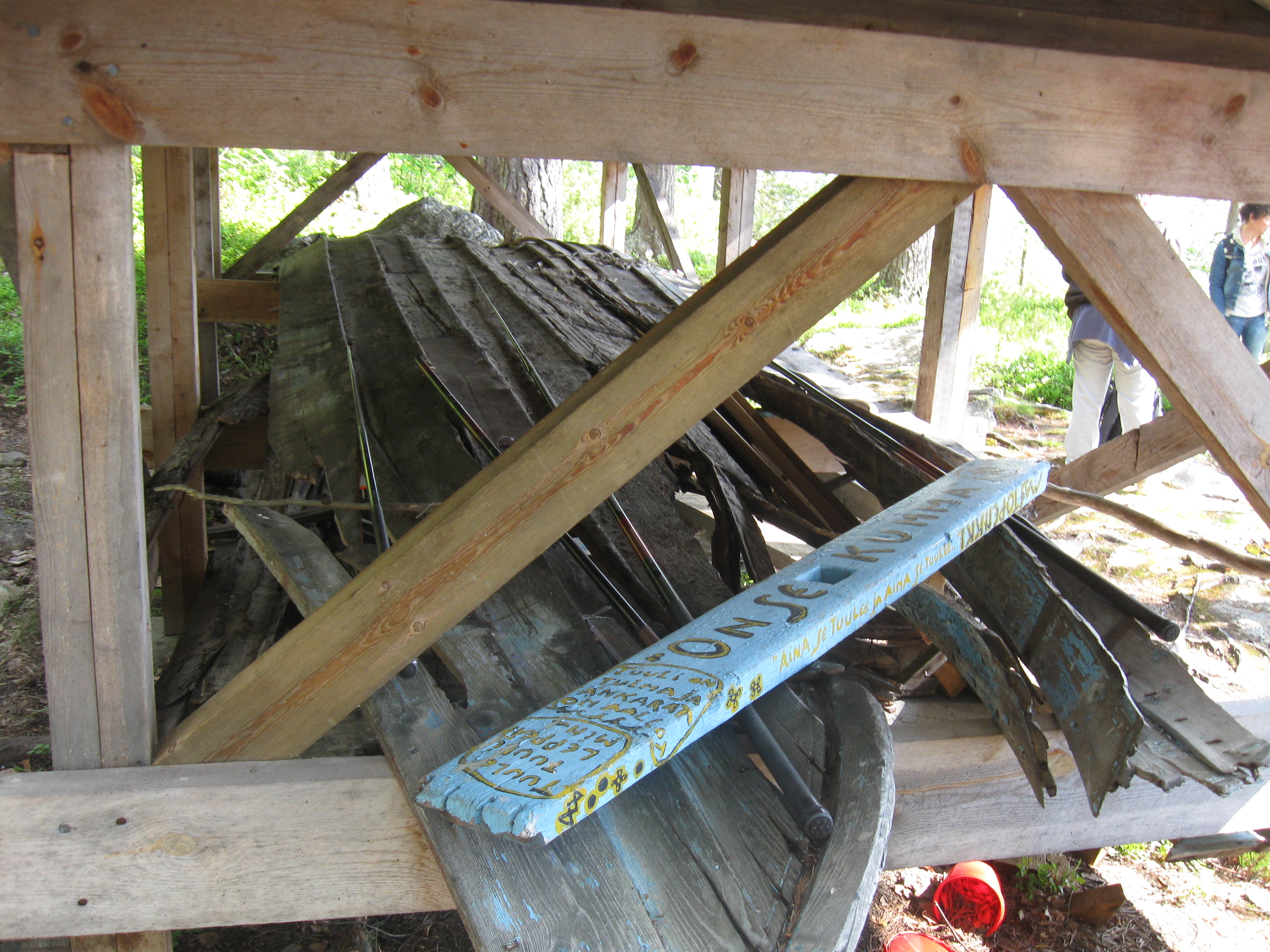 The remains of a wooden boat used by the Finnish author Ilmari Kianto, stored at Turjanlinna, where he used to live.